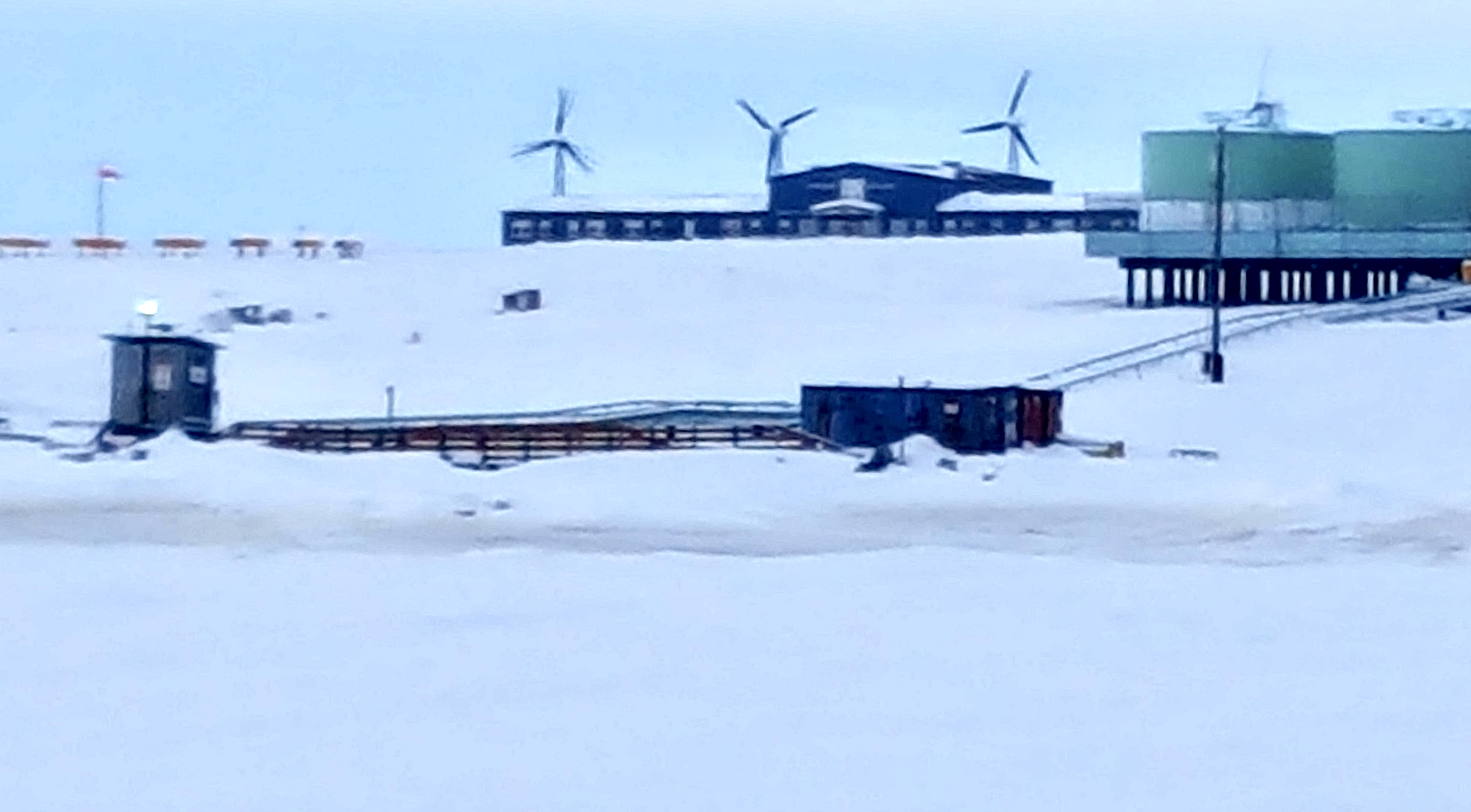 School, wind farm, and tank farm in Kongiganak, Alaska